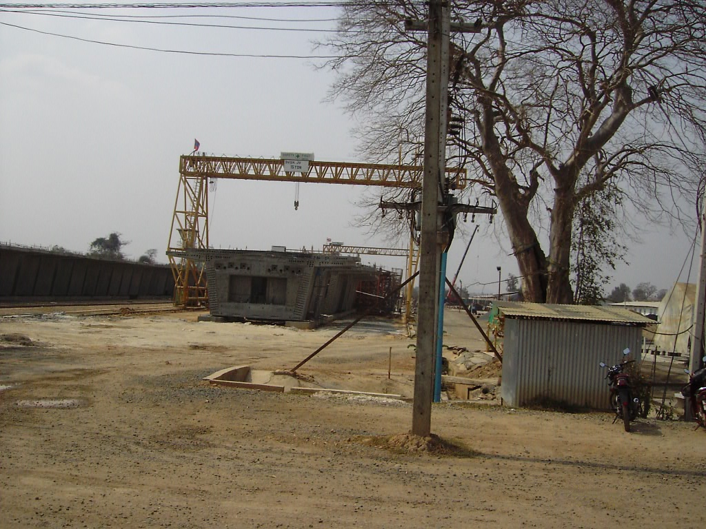 Mukdahan Friendship Bridge II supports under construction on shore